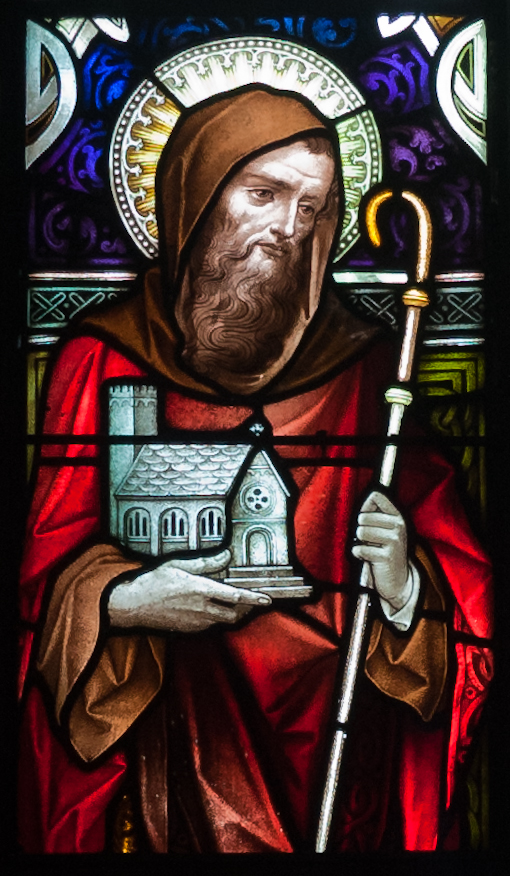 Detail of the left light of the sixth window in the north aisle, depicting Saint Grellan.